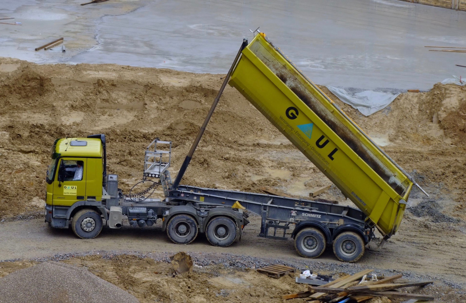 6x4 semi-tractor with 2-axle dump trailer from File:LKW_Kipper_DSCF6469.jpg